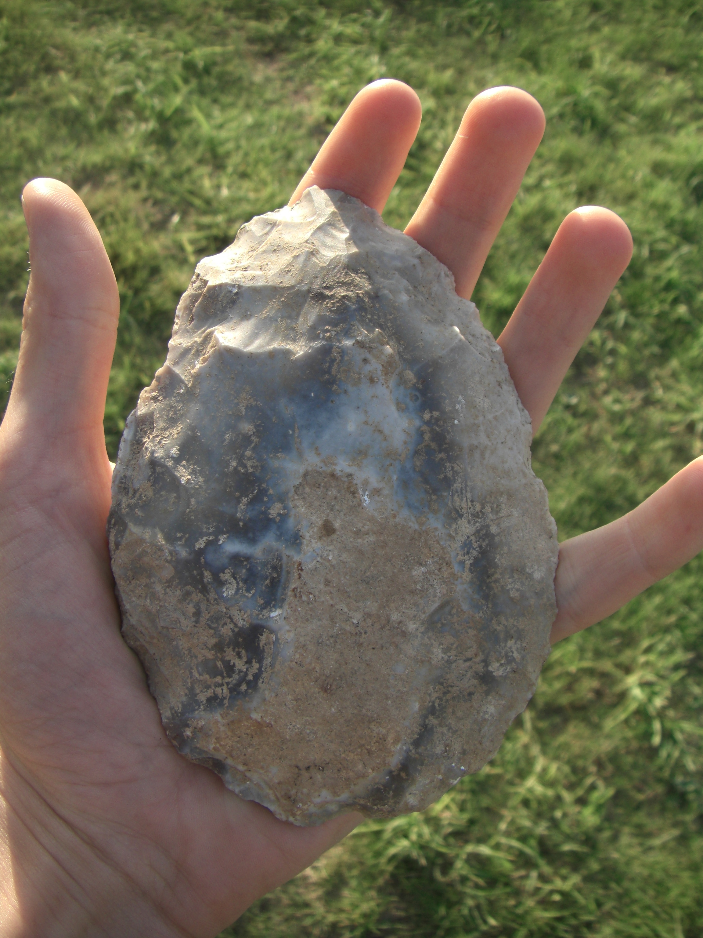 One of the hundreds of handaxes discovered by archaeological excavation at Boxgrove; this one found in 2011.